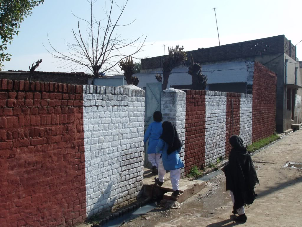 Girlschoolprimary